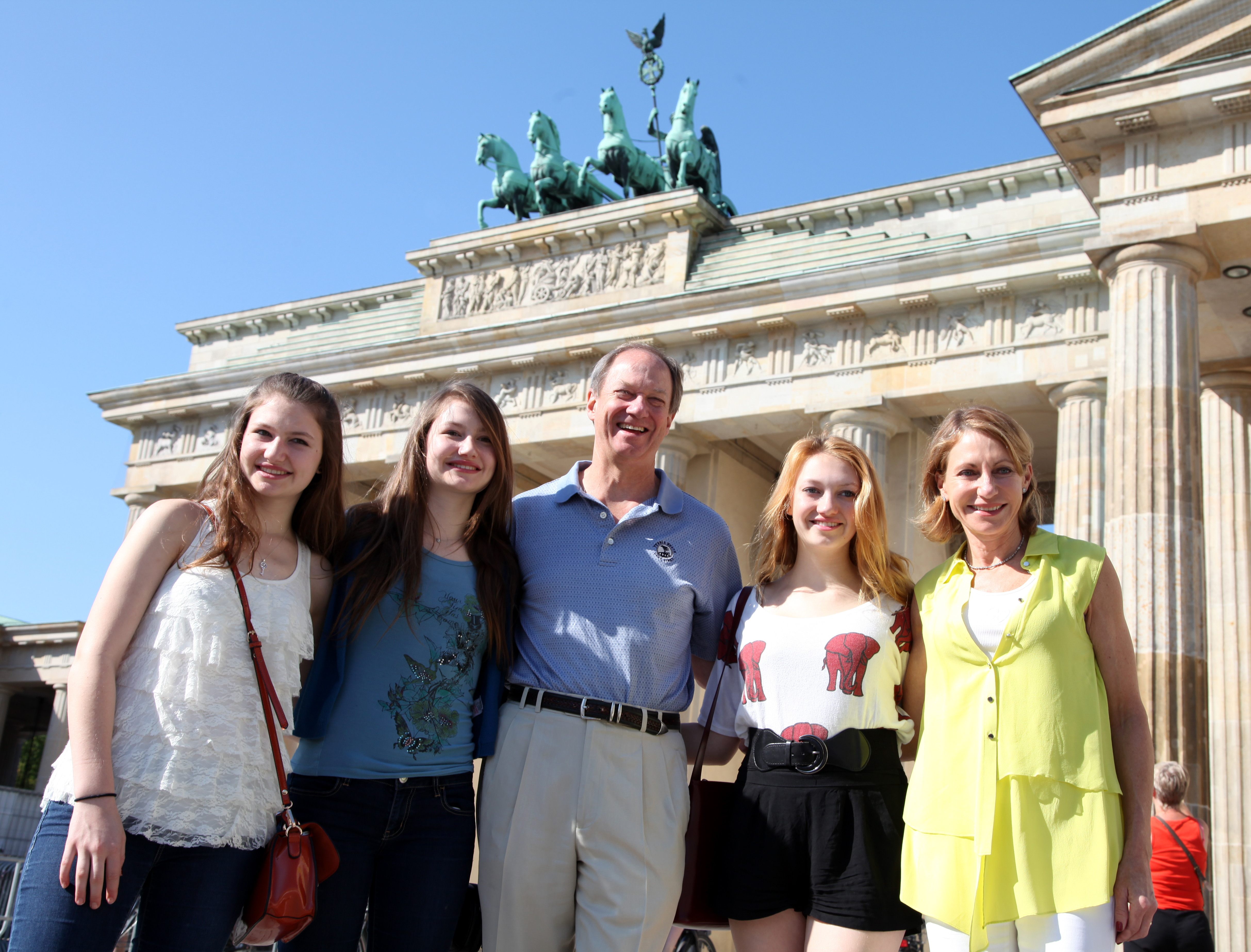 Ambassador-Designate John B. Emerson arrived in Berlin with his family. The Emerson family gets initial tour of Berlin-Mitte. Brandenburg Gate. Hayley, Taylor, John, Jackie, Kimberly)